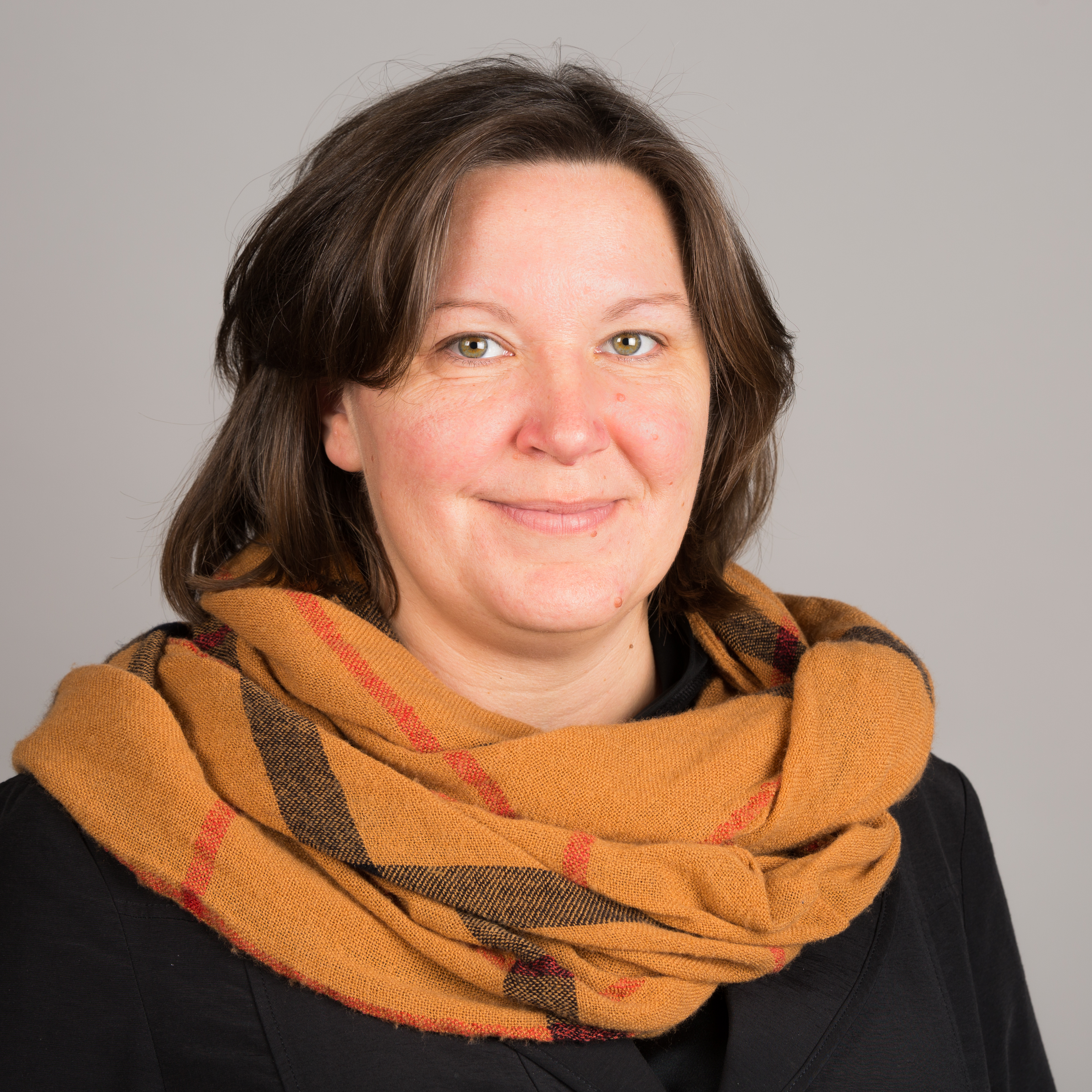 Sabine Friedel, SPD, Member of the Parliament of the Free State of Saxony